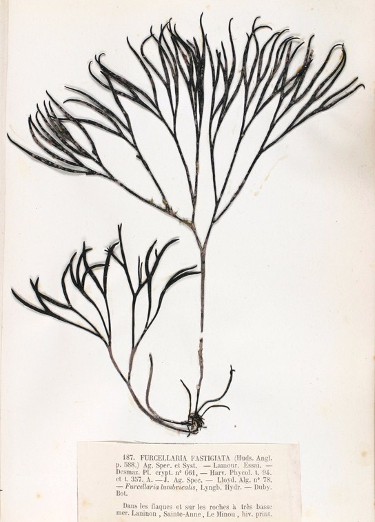 « Furcellaria fastigiata » = Furcellaria lumbricalis